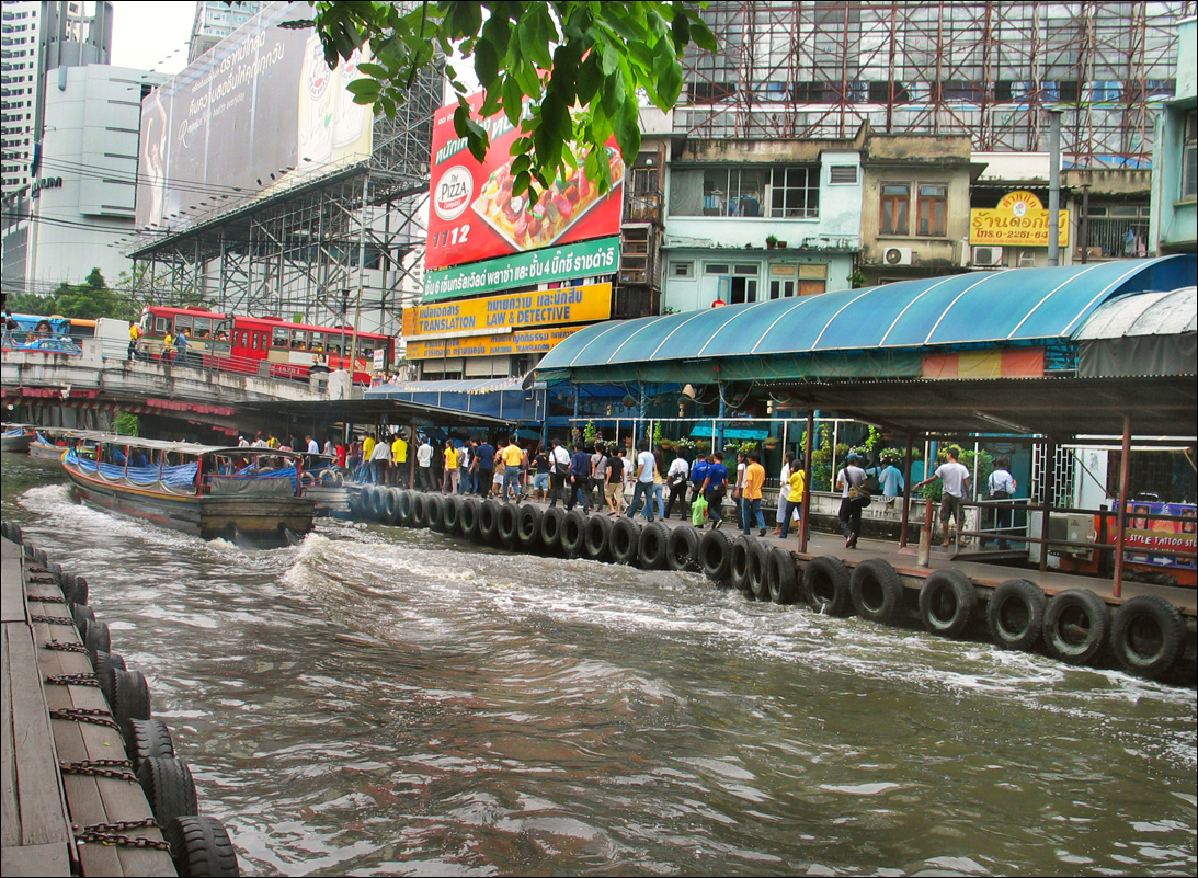 Local transport on Khlong Saen Saeb, Bangkok, Thailand